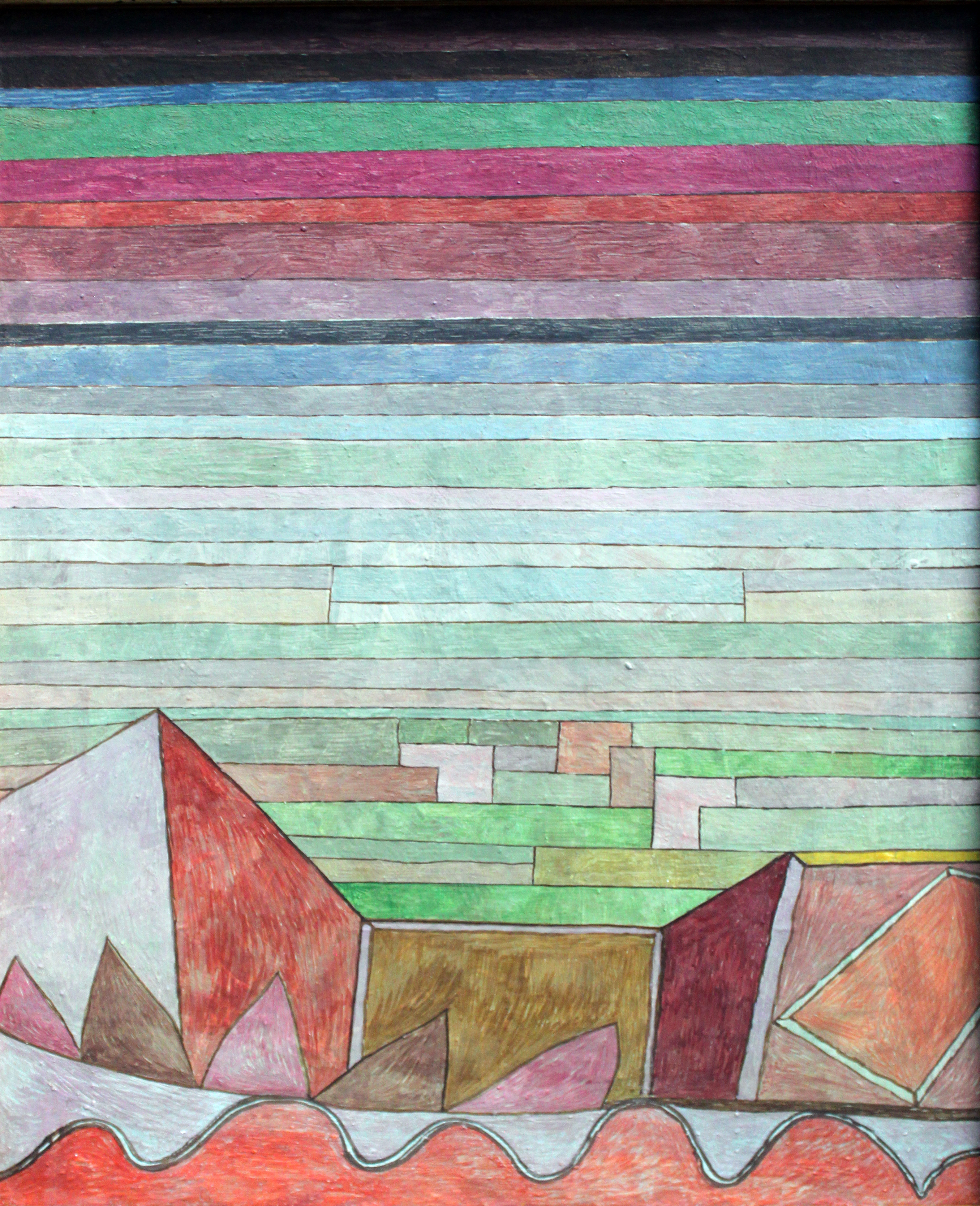 View into the Fertile Country